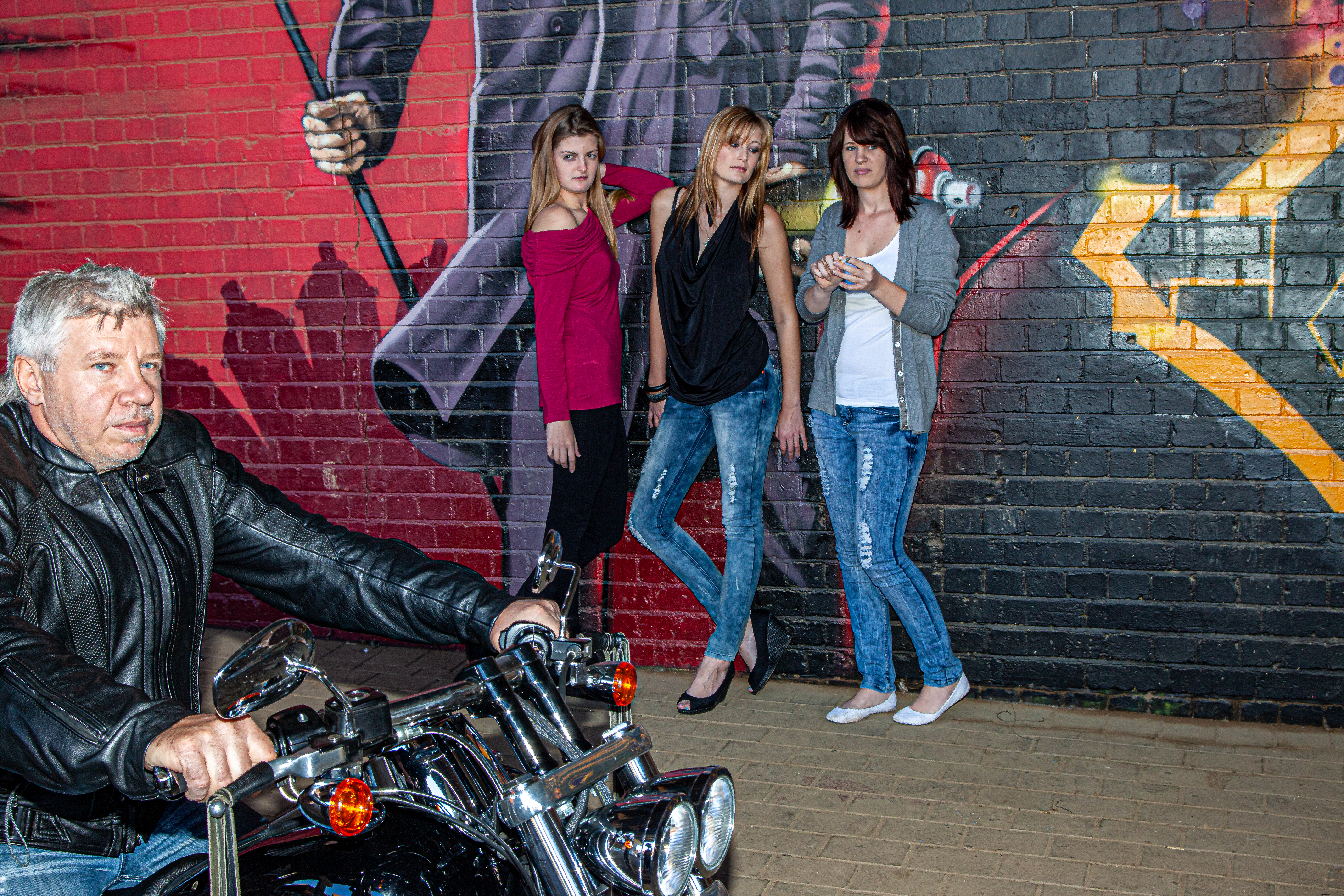 3 South African models in the rough New Town This is an image with the theme "Africa on the Move or Transport" from: South Africa